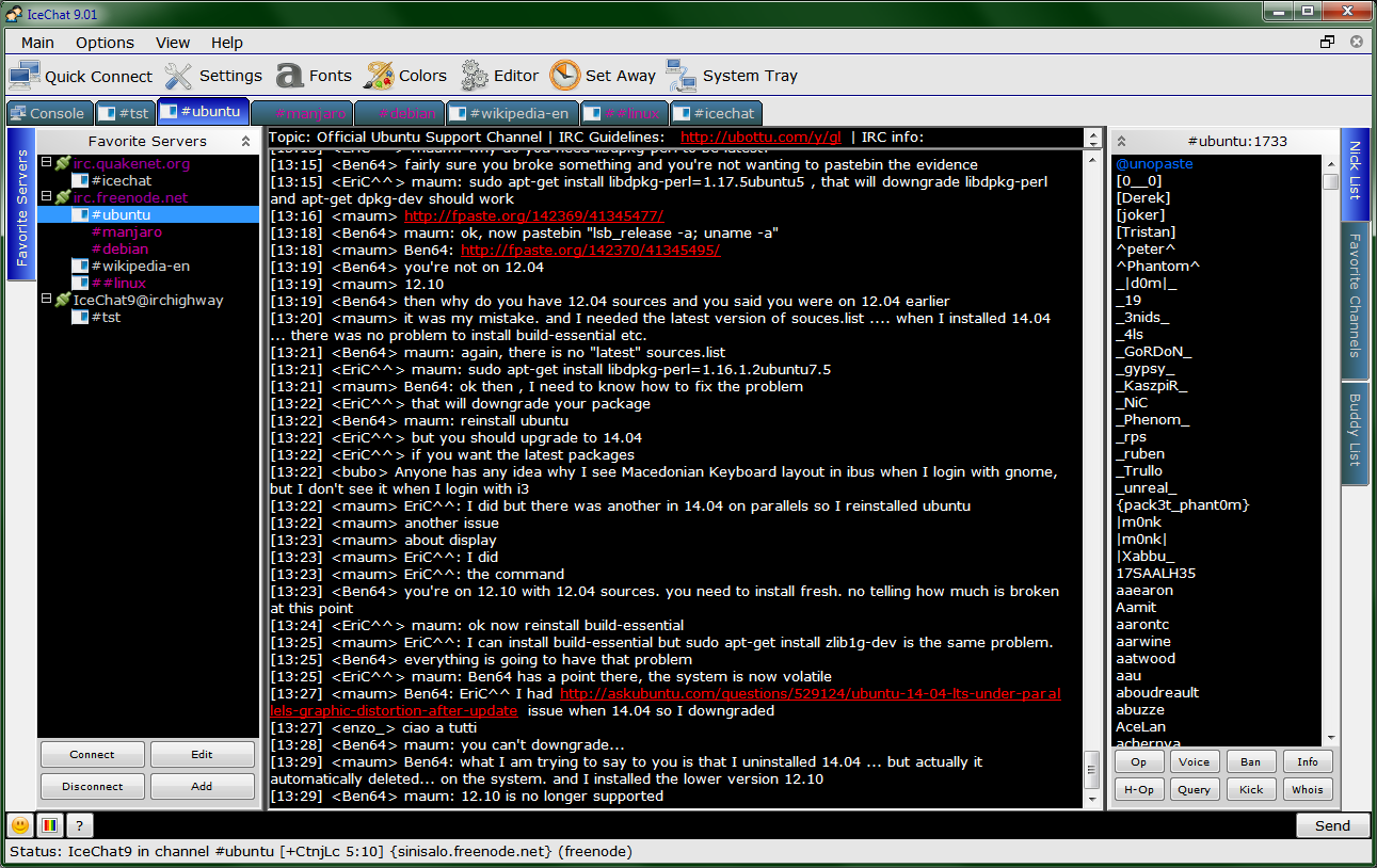 A screenshot of IceChat 9